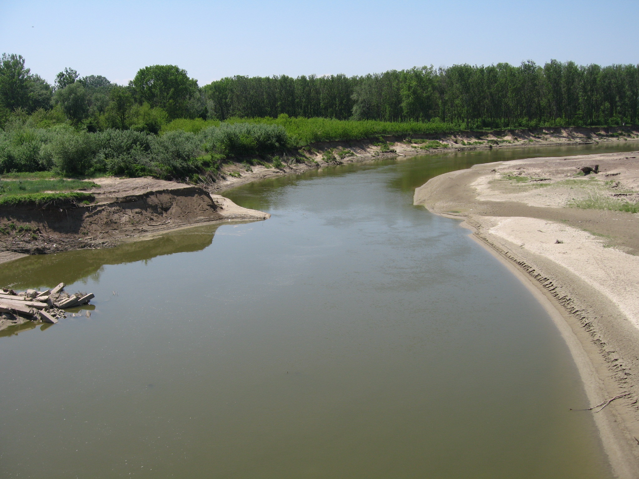 Siret, at Mirceşti